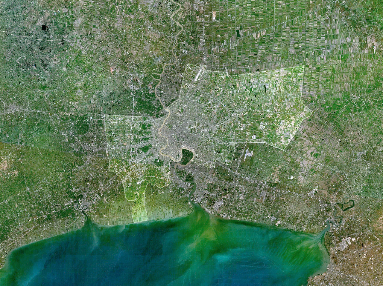 Satellite image of Bangkok; the area of the city is highlighted and bordered. creator: Tsui 18:06, 12 February 2006 (UTC) based on: Image:Bangkok 100.58216E 13.71989N.png